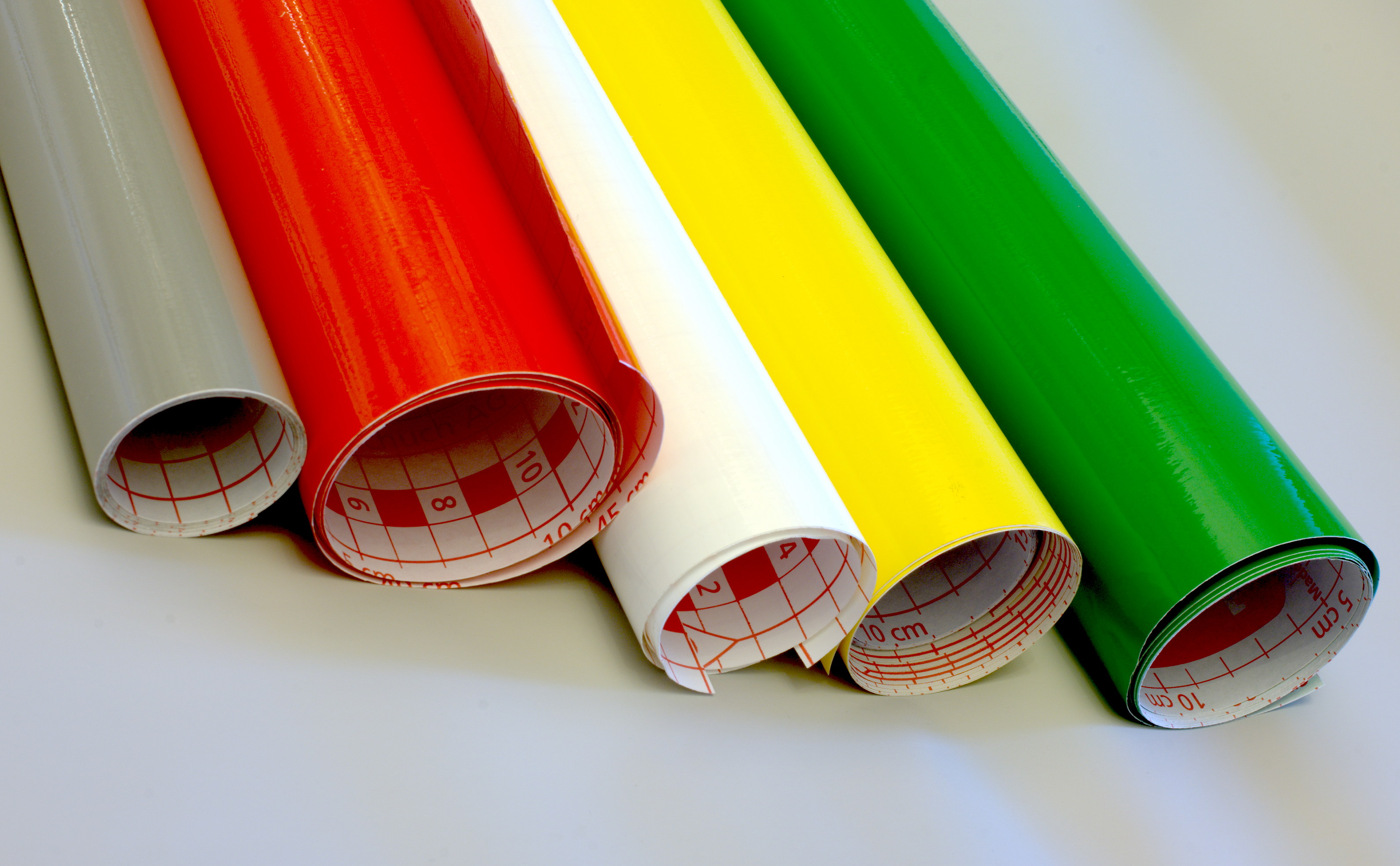 Colour self adhesive tape (self adhesive paper)